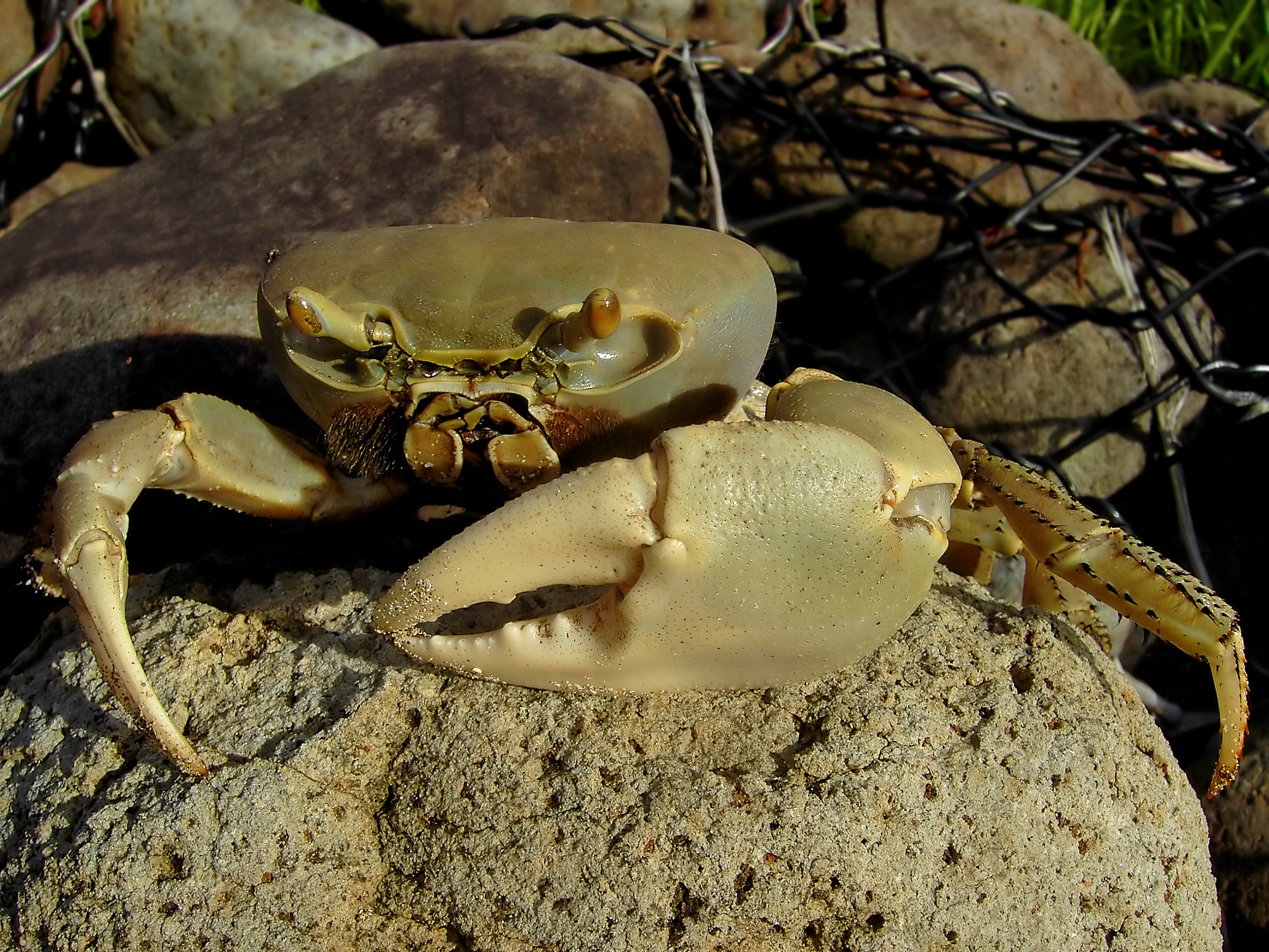 Blue land crab at Woodford Hill Beach, Dominica, W.I.